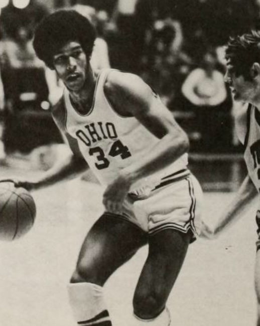 Ohio University basketball player Walter Luckett from the 1974 Ohio U. “Athena” yearbook.